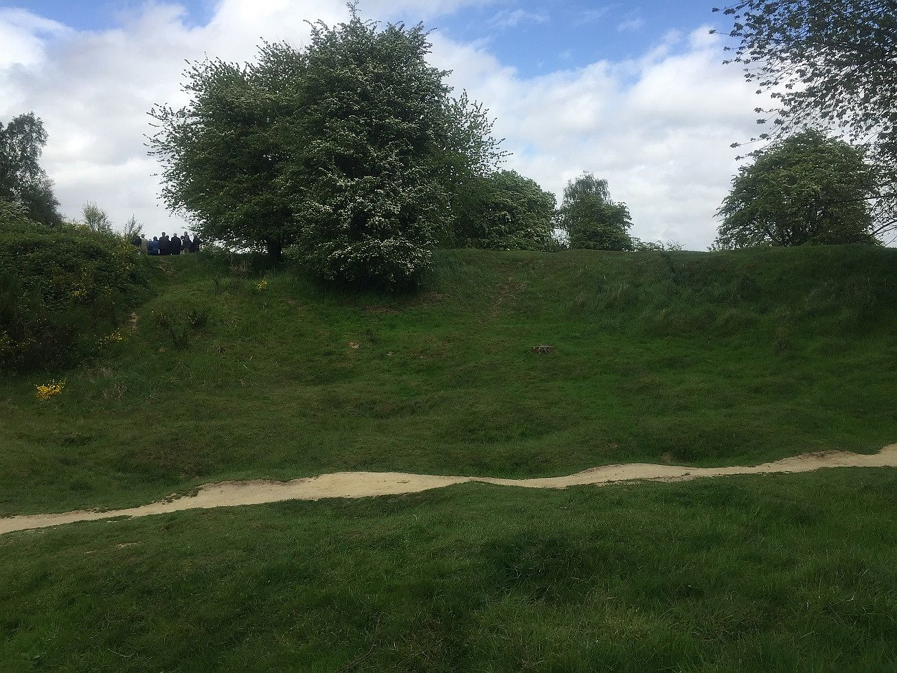 Hill 60, Ypres, Belgium: battlefield memorial park with crater of the British deep mine fired at Hill 60 on 7 June 1917